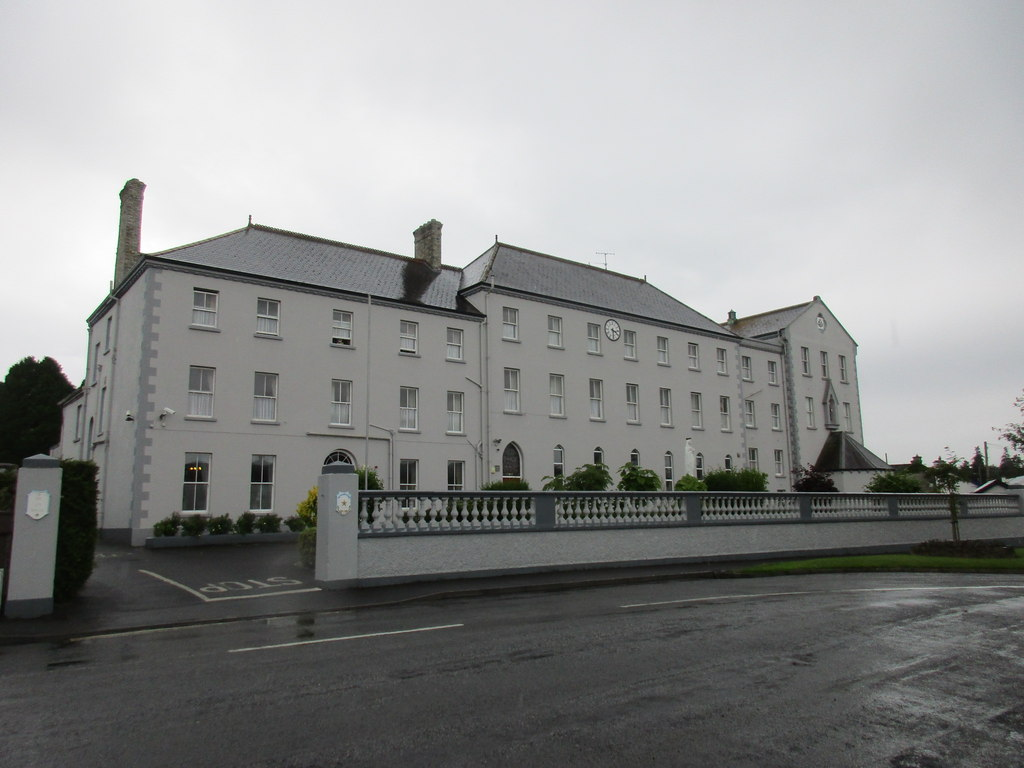 De la Salle Community, Castletown